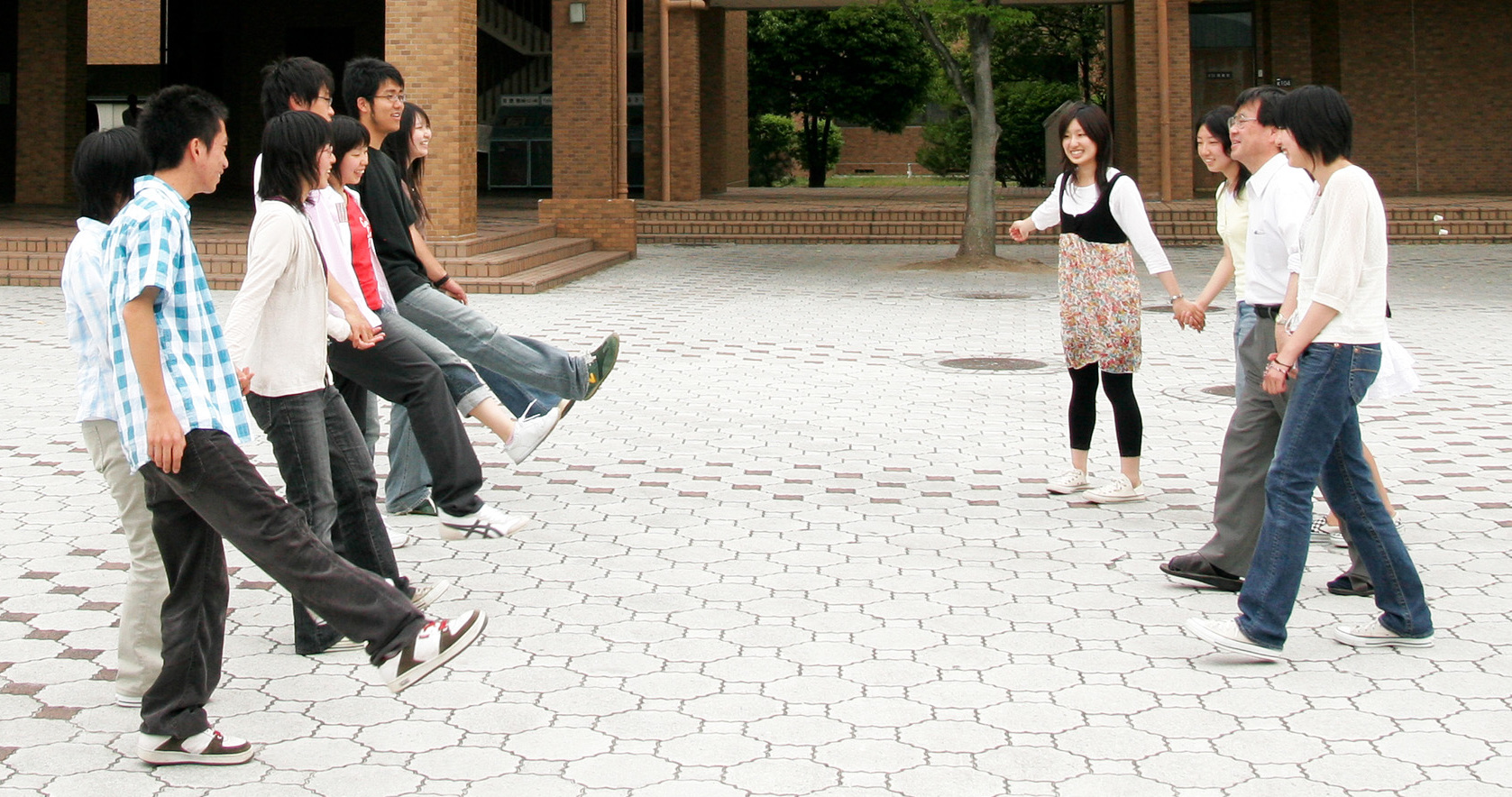 Faculty of Education